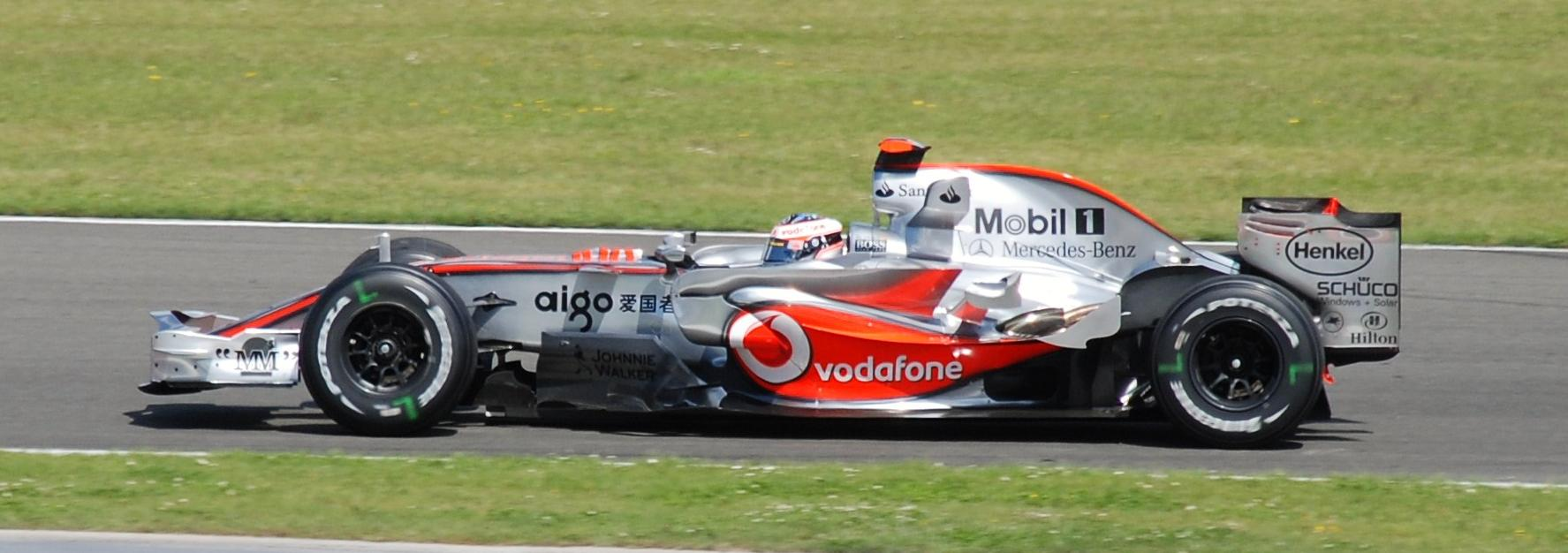 Fernando Alonso driving for McLaren at the 2007 British Grand Prix.